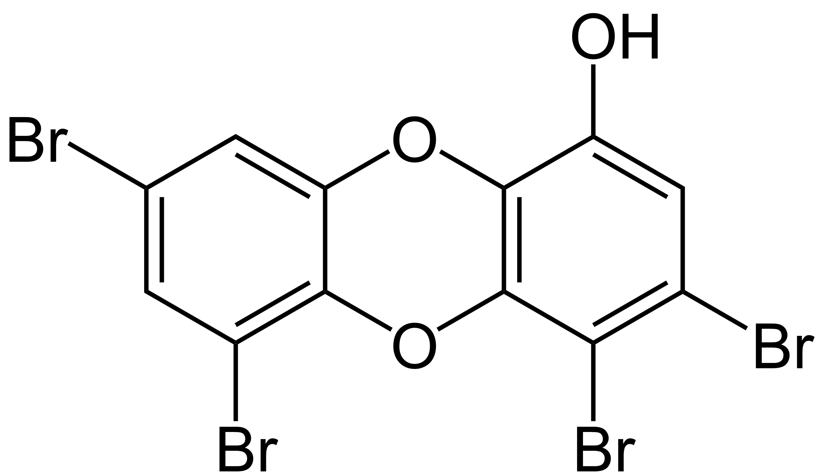 Spongiadioxin A, a natural dioxin